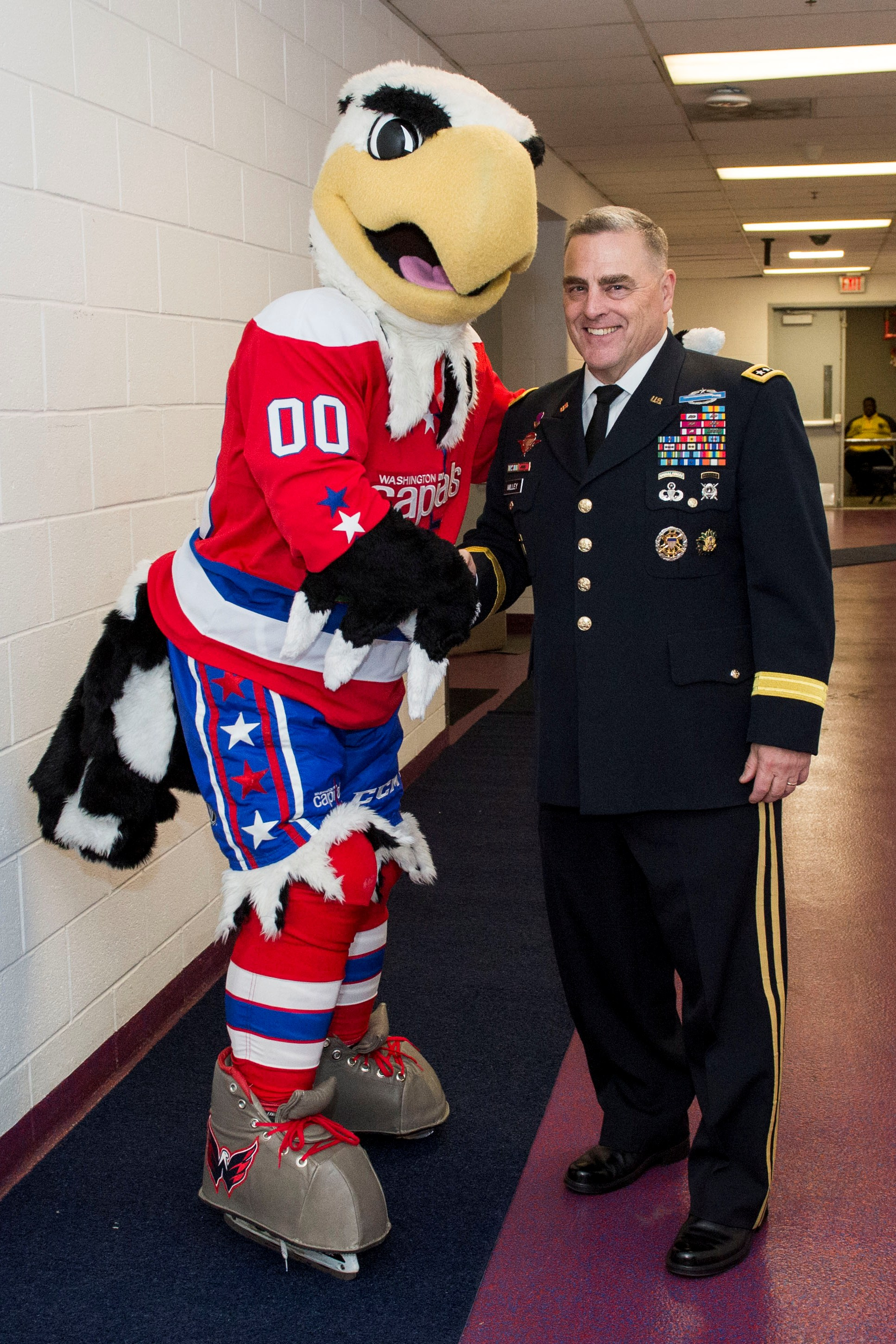 U.S. Army Chief of Staff, Gen. Mark A. Milley, visits the Verizon Center for a National Hockey League game between the Washington Capitals and Winnipeg Jets, November 3, 2016. Milley was representing the U.S. Army for the Captial's Army Appreciation Night. (U.S. Army photo by Sgt. 1st Class Chuck Burden)